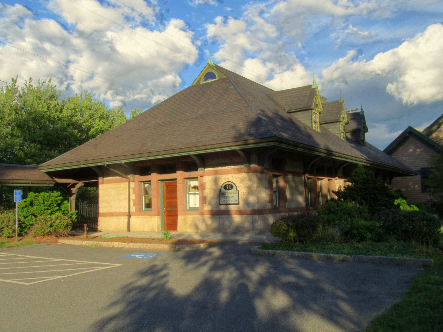 The former Westborough station in September 2016